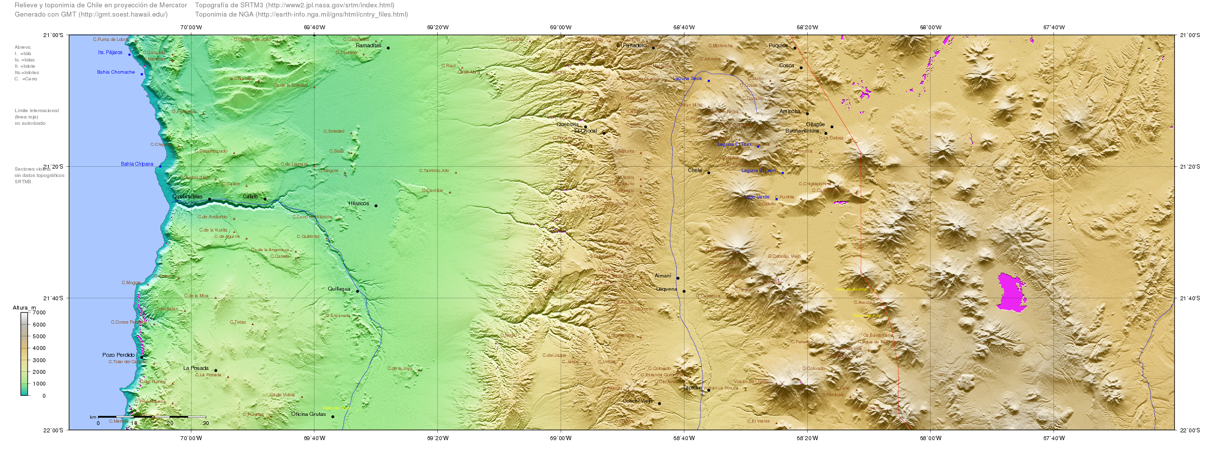 Map of Chile generated with GMT ( topography from SRTM ftp://e0srp01u.ecs.nasa.gov/srtm/version2/SRTM3/ and toponymy from